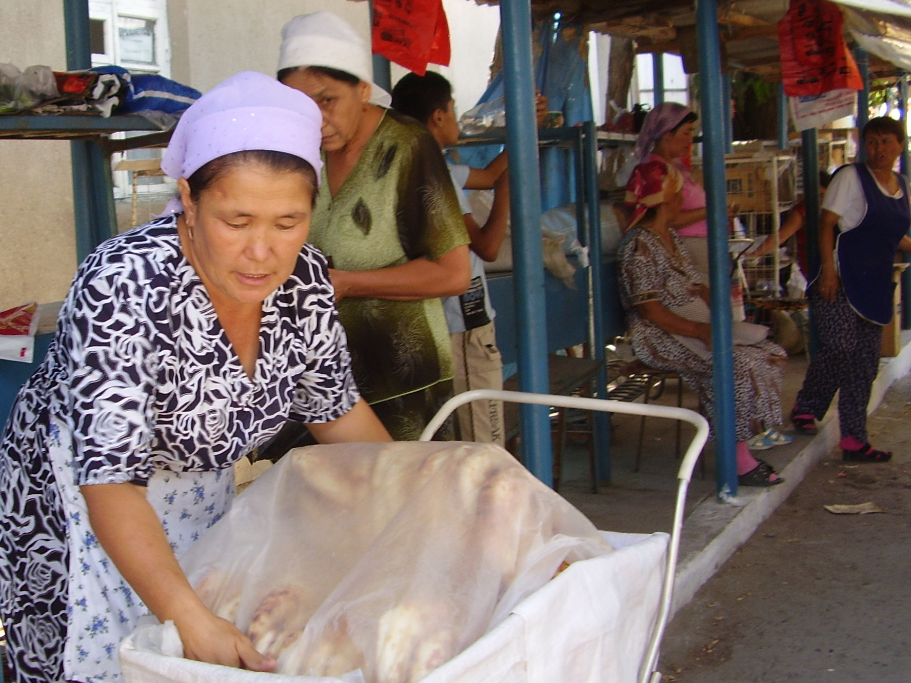 Kentau. Bread vendors.